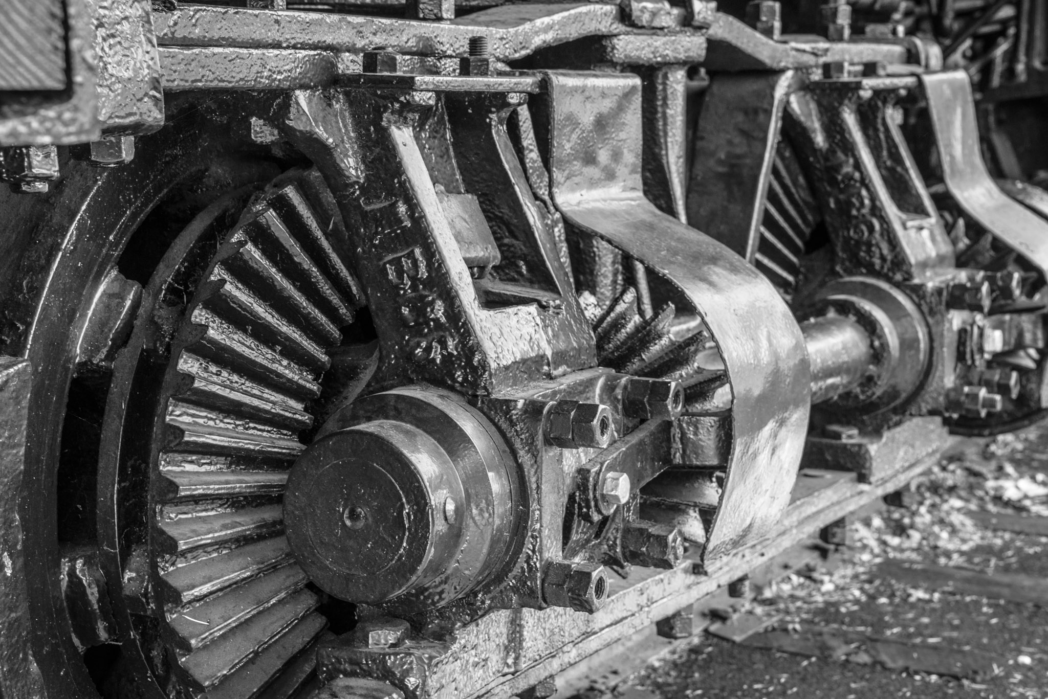 Wheel on “Peggy,” a Lima Shay Geared Steam Locomotive (SN 2172). In a geared steam locomotive, power from the cylinders was transmitted by shafts along the right side of the locomotive. The shafts turned bevel gears, which turned the wheels that rested on the rails. Left to right in this photo are a wheel, a bevel gear, a shaft, and another wheel. This locomotive, named “Peggy,” is a Lima Shay geared steam locomotive. She was built in 1909 and worked in Oregon and Washington hauling timber out of forests. In 1933 all of the wood on Peggy was burned when she was caught in a large forest fire. She was rebuilt and continued working until 1950. During her 41-year career she hauled an estimated billion feet of logs.In 1955 she was donated to the City of Portland, Oregon. She was put on display, but was heavily damaged again in 1964 in a structure fire. She was restored from 1969 to 1971. She is now displayed at the World Forestry Center in Portland.Peggy was built by the Lima Locomotive Works in Lima, Ohio. As originally built she weighed 67,100 pounds. She is a Class B design with three steam cylinders, two trucks (sets of wheels), and eight wheels. More specifically she was a “Balloon” model with a working order weight of 42 tons. Originally she used wood as fuel, but was changed to burn oil early in her career. Her Shop Number is 2172. Geared locomotives were invented by Ephraim Shay. By inserting gears between the steam cylinders and the drive wheels, using trucks that could pivot, and applying power to all of the locomotive’s wheels, he created an engine that could pull heavy loads but could also work on tracks that were less than ideal, had tight turns, and were laid on steep grades--common characteristics of tracks used for logging. Shay licensed his design to Lima Locomotive Works.